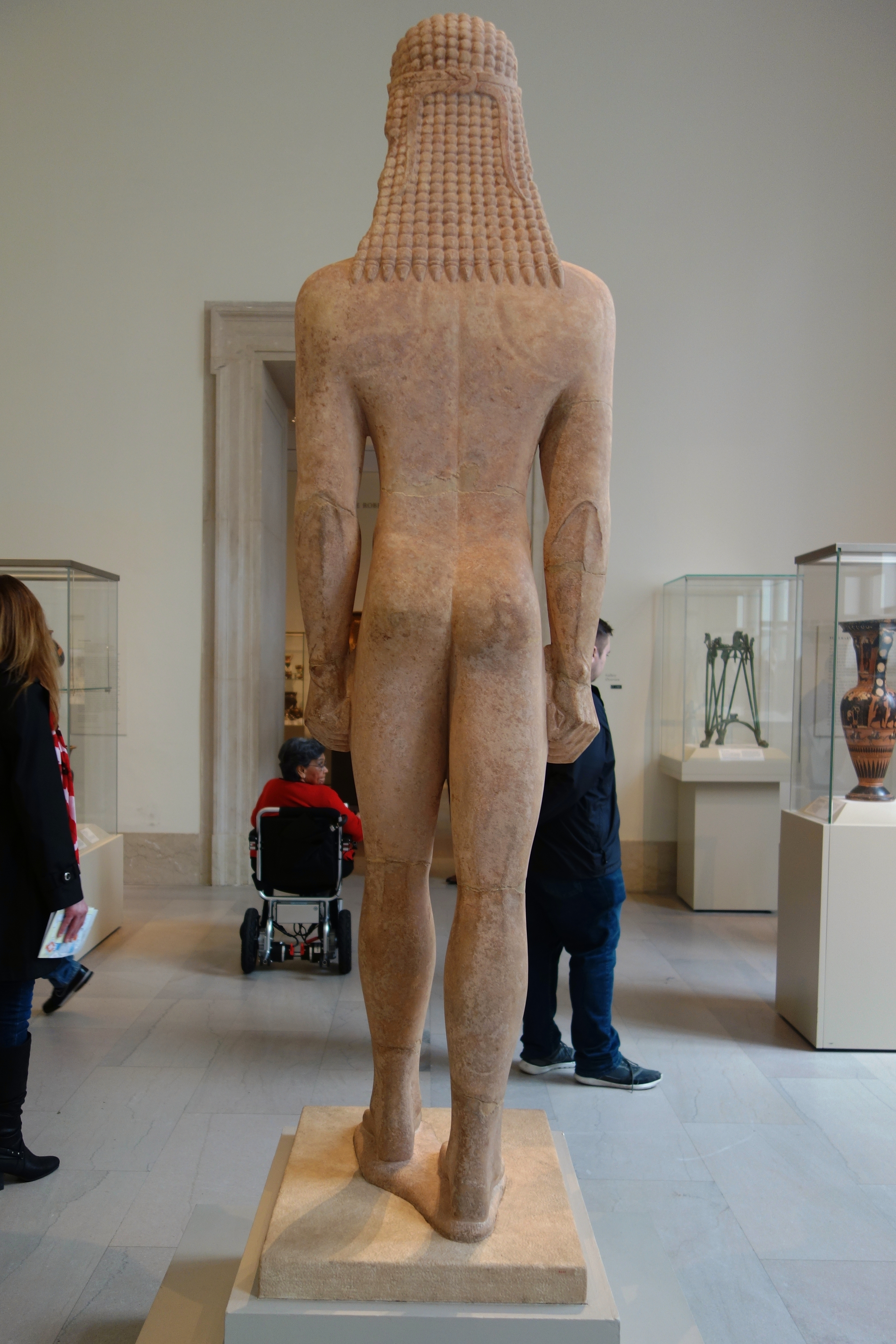 Marble statue of a kouros, said be from Attica, 590–580 BC. Metropolitan Museum of Art (New York) 32.11.1.